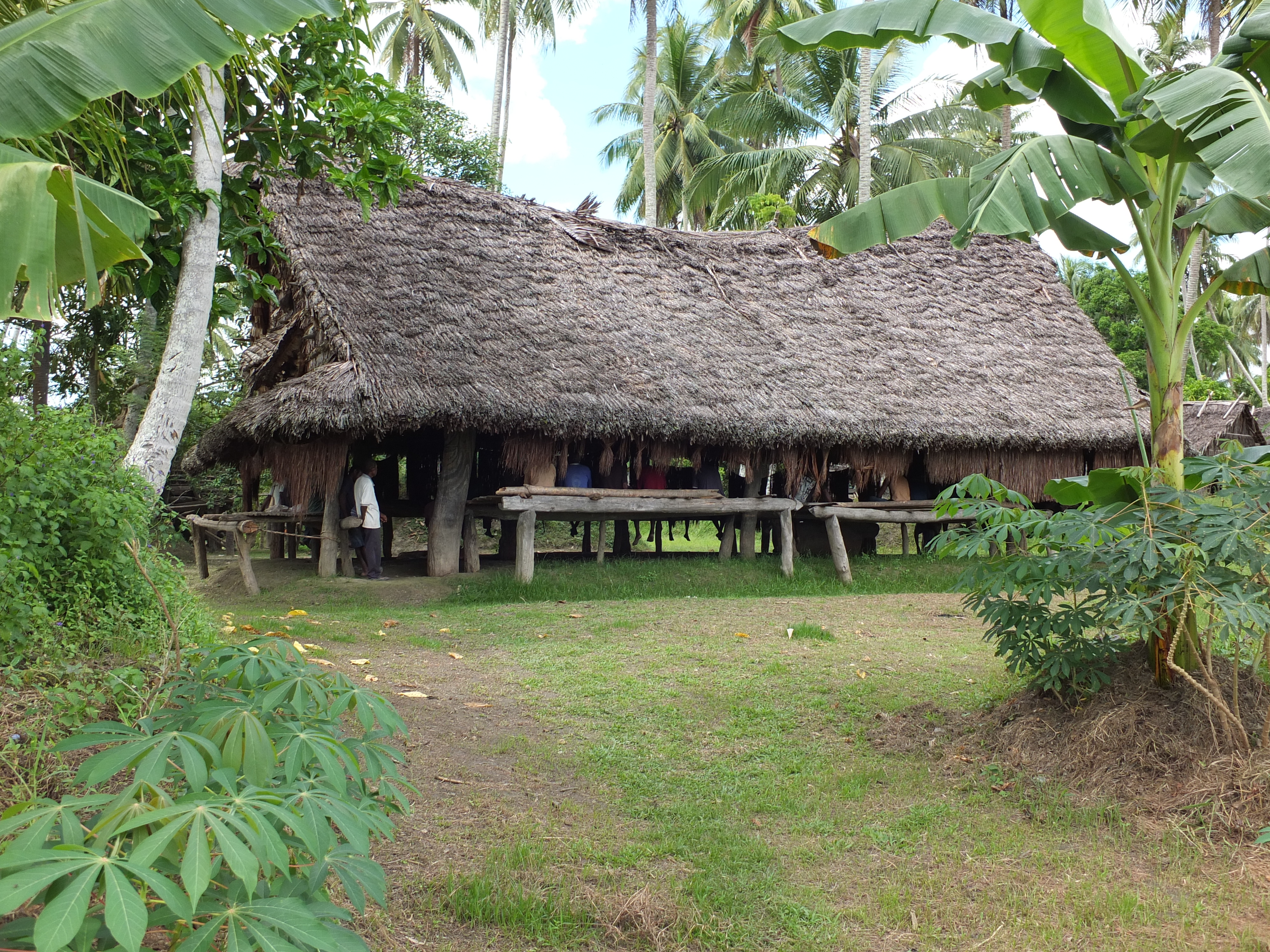 Side view of newest men's house (or cult house) in Tambunum, a village of the Iatmul people in the middle Sepik River of Papua New Guinea, built around 2010. The men's house belongs to one clan (the Crocodile Clan). Inside the building are men during a formal political discussion.